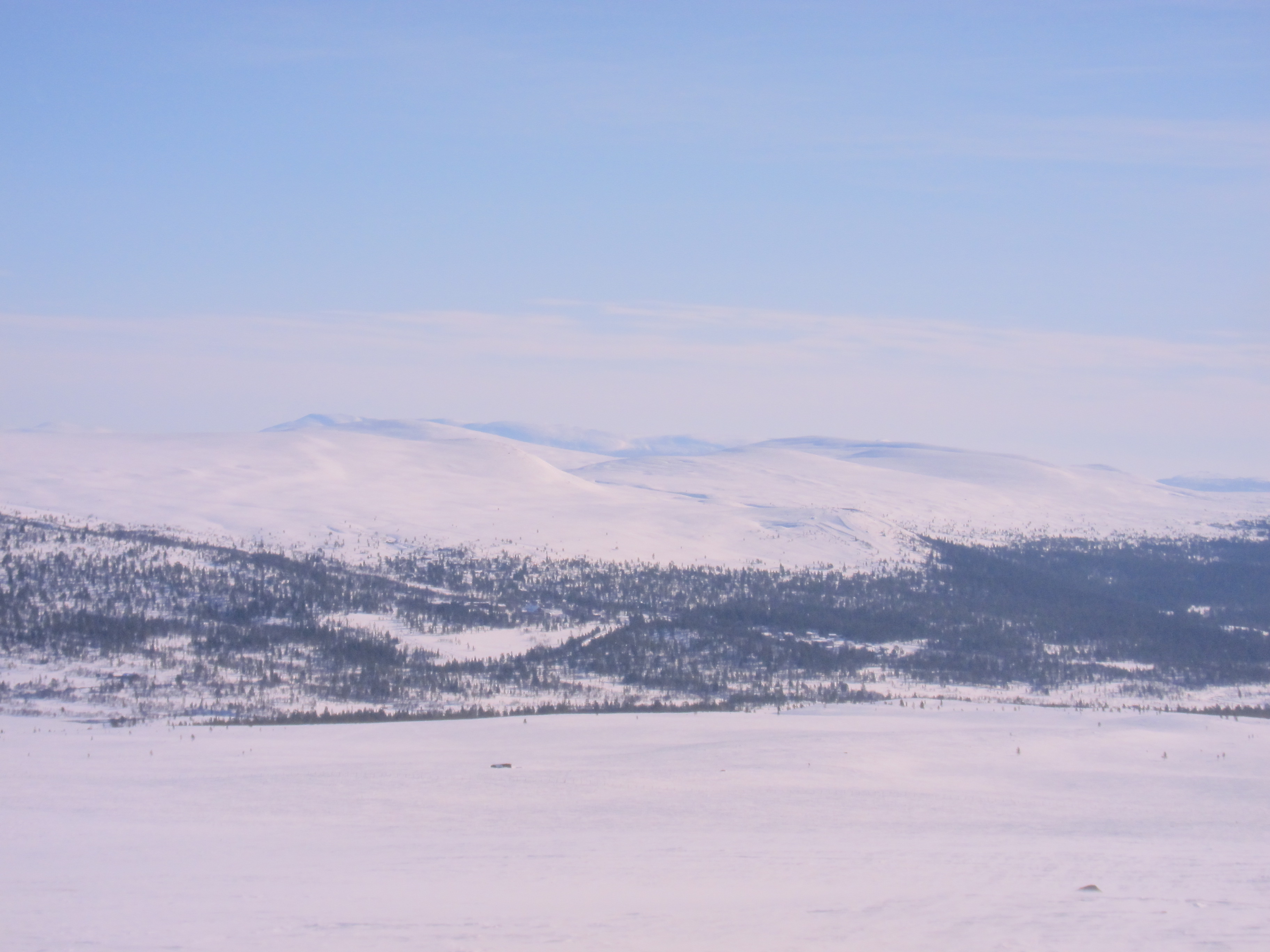 Långfjället in the winter season of 2012-2013.